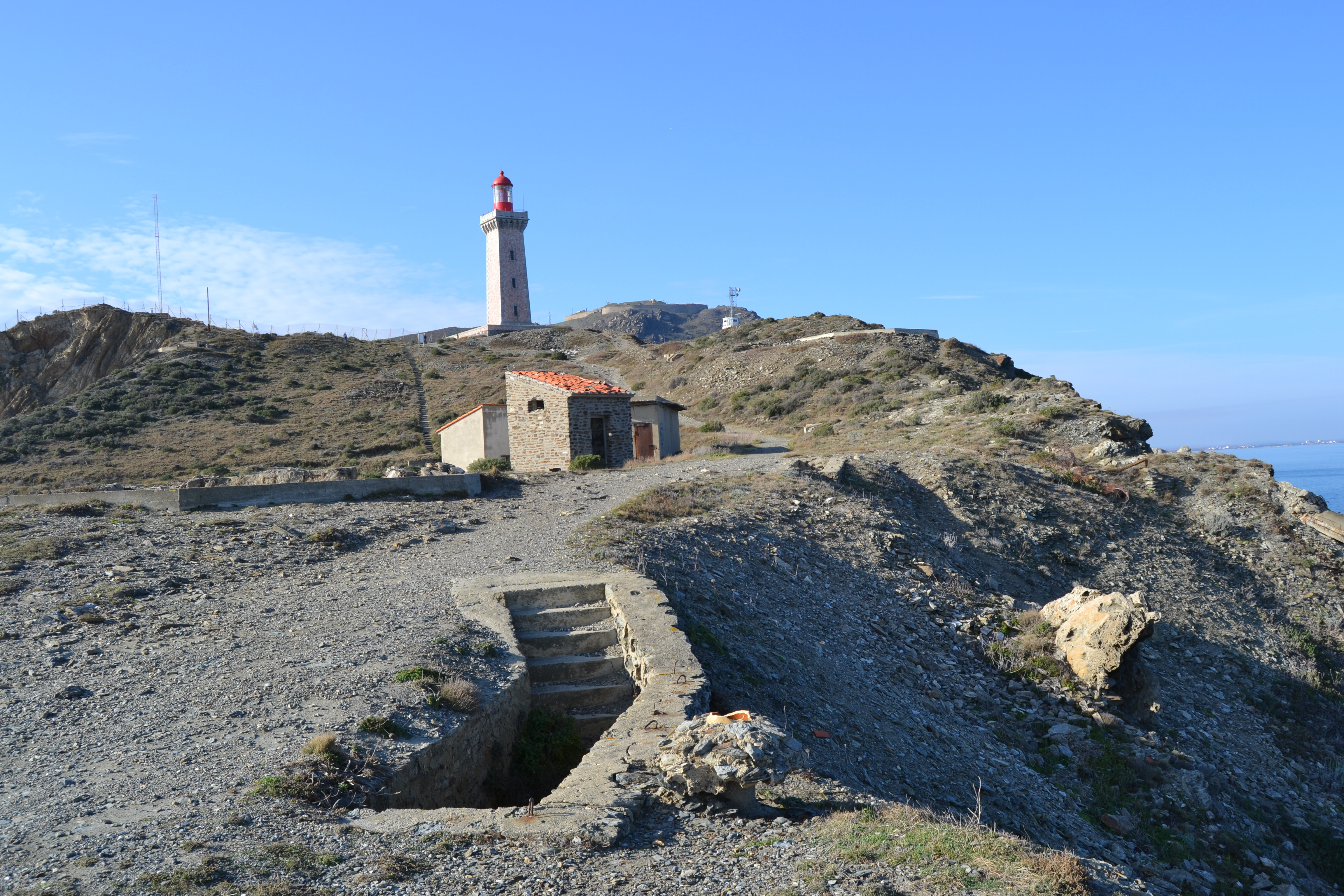 Cape Béar, in the south-east coast of France